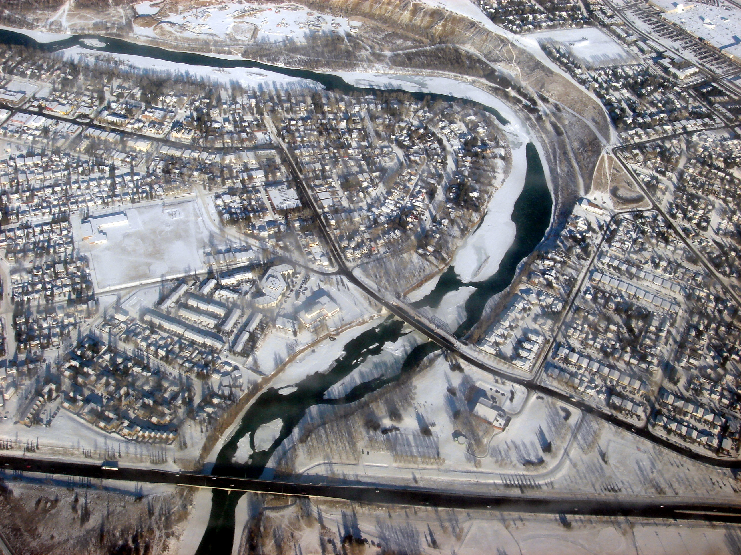 Community of Bowness, with Bpw River, Bowness Road, RB Bennet Elementary School, Highway 1, in Calgary, Alberta, Canada